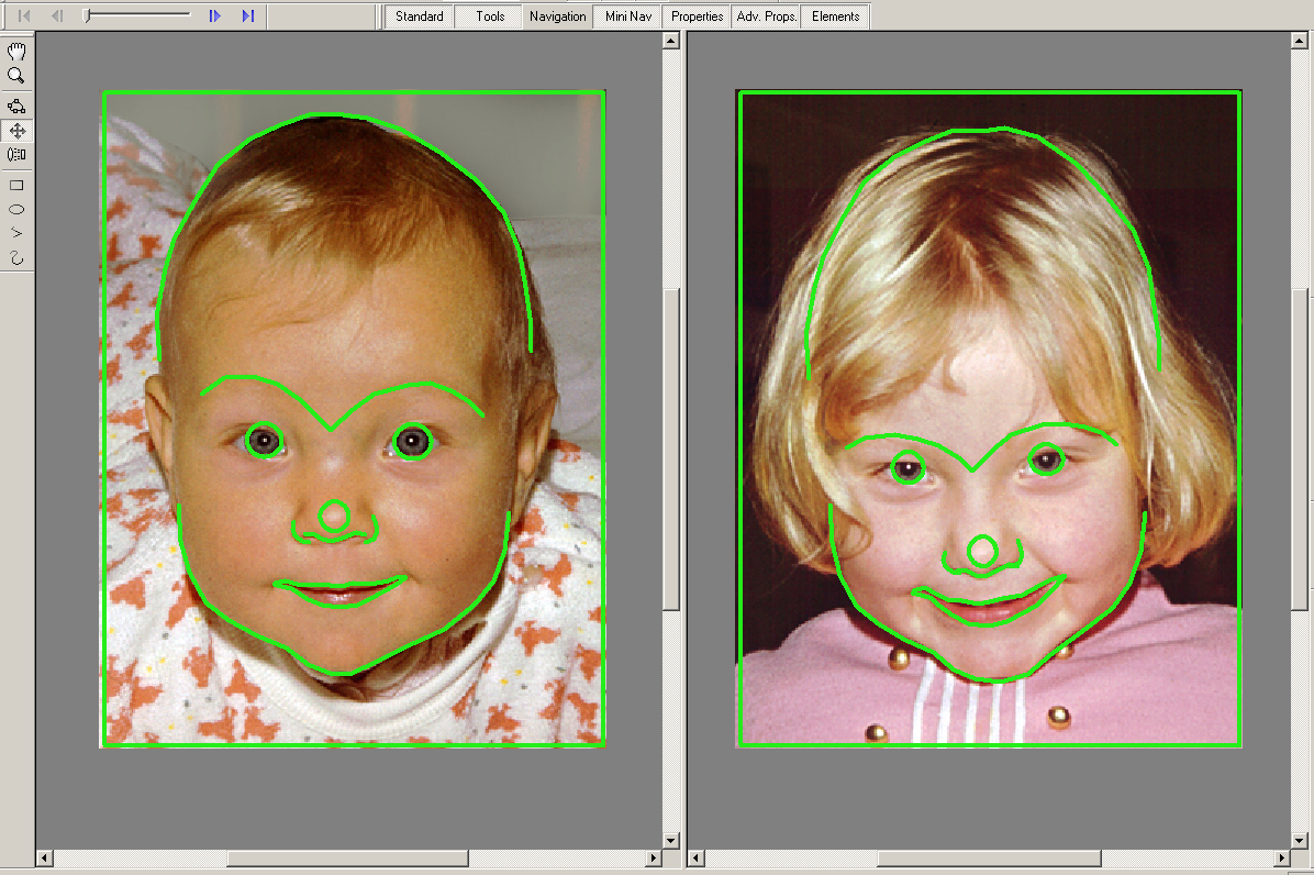 self-made WinMorph morphing from own images